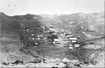 The Town of Skidoo in 1906 — within present day Death Valley National Park. The discovery of gold at Skidoo in the early 1900's sparked Death Valley's third mining period. "Town of Skidoo" from NPS archives.